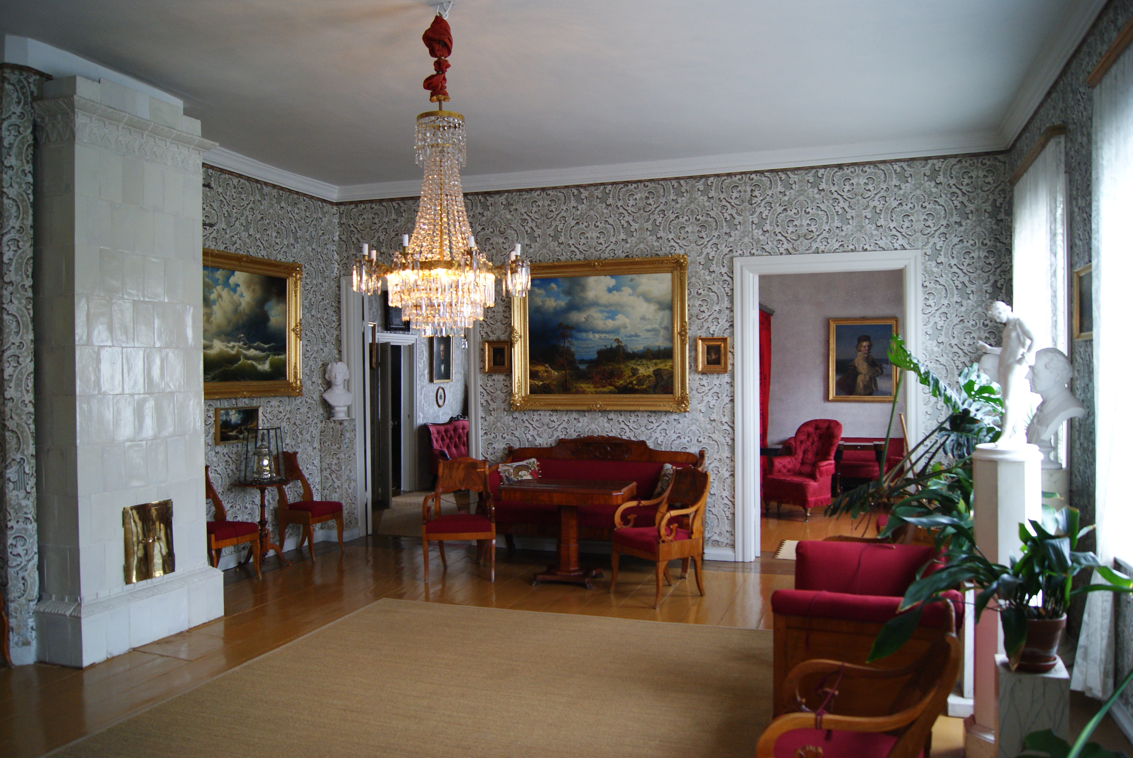 The rsidence of Ludvig Runeberg